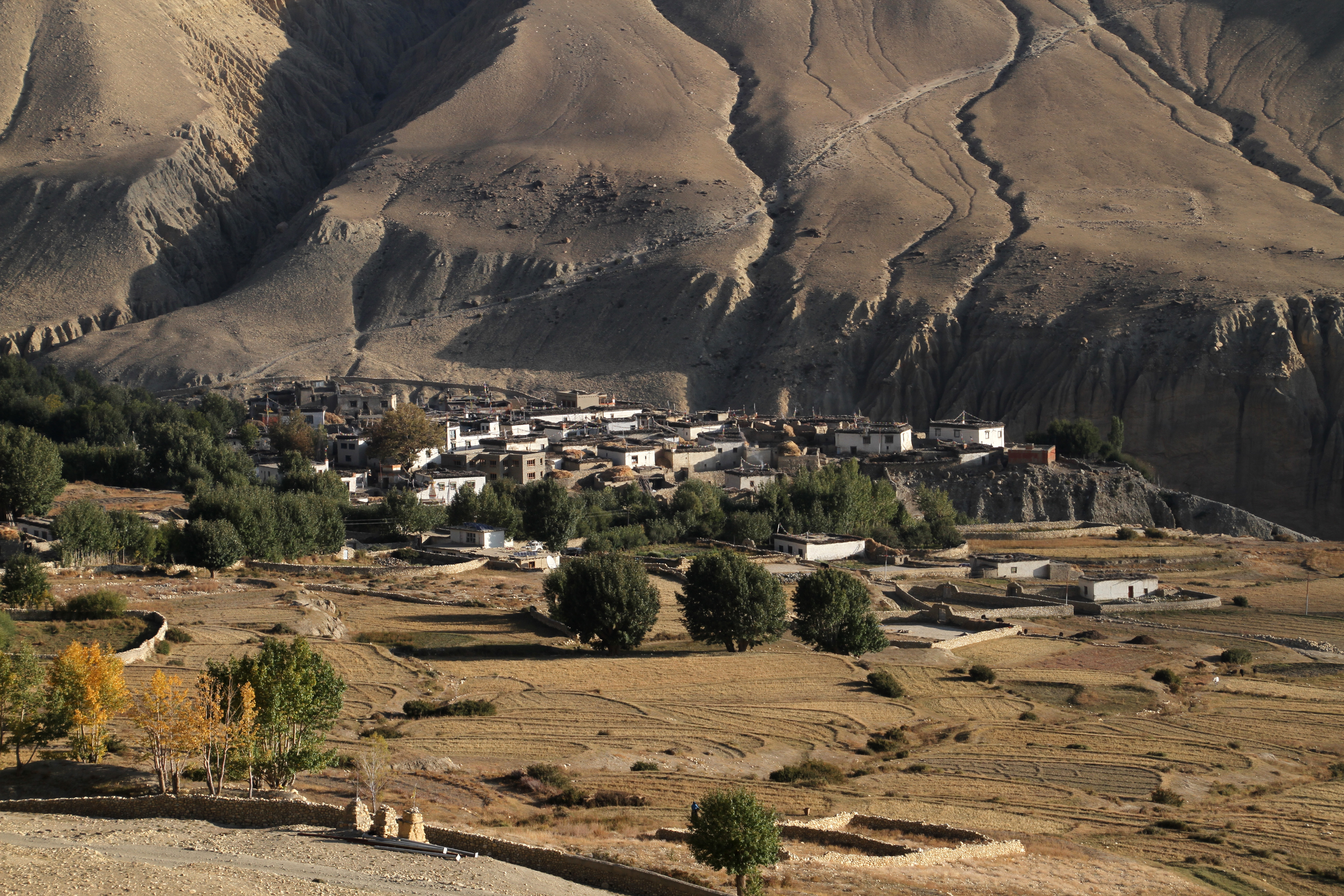 Village in Dalome Gaunpalika in Mustang District in Nepal